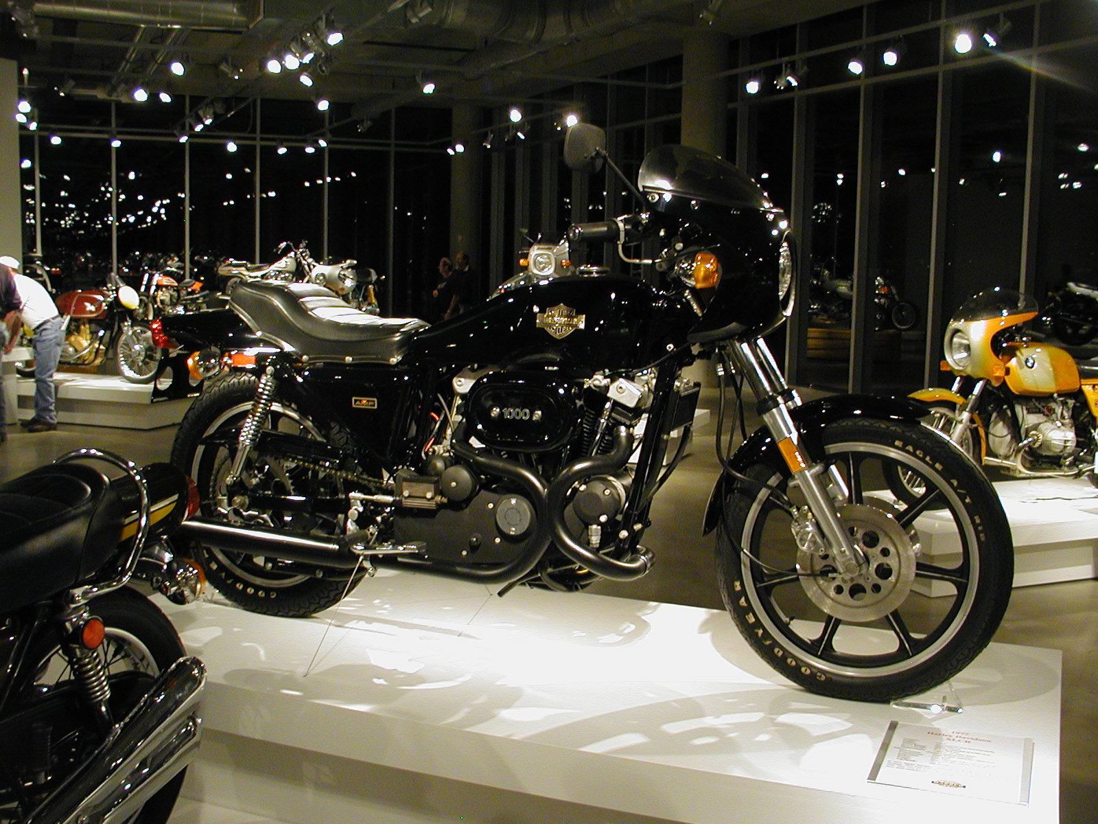 Barber Motorcycle Museum - Oct 22 2006 (173) 1977 Harley Davidson XLCR / More description is here